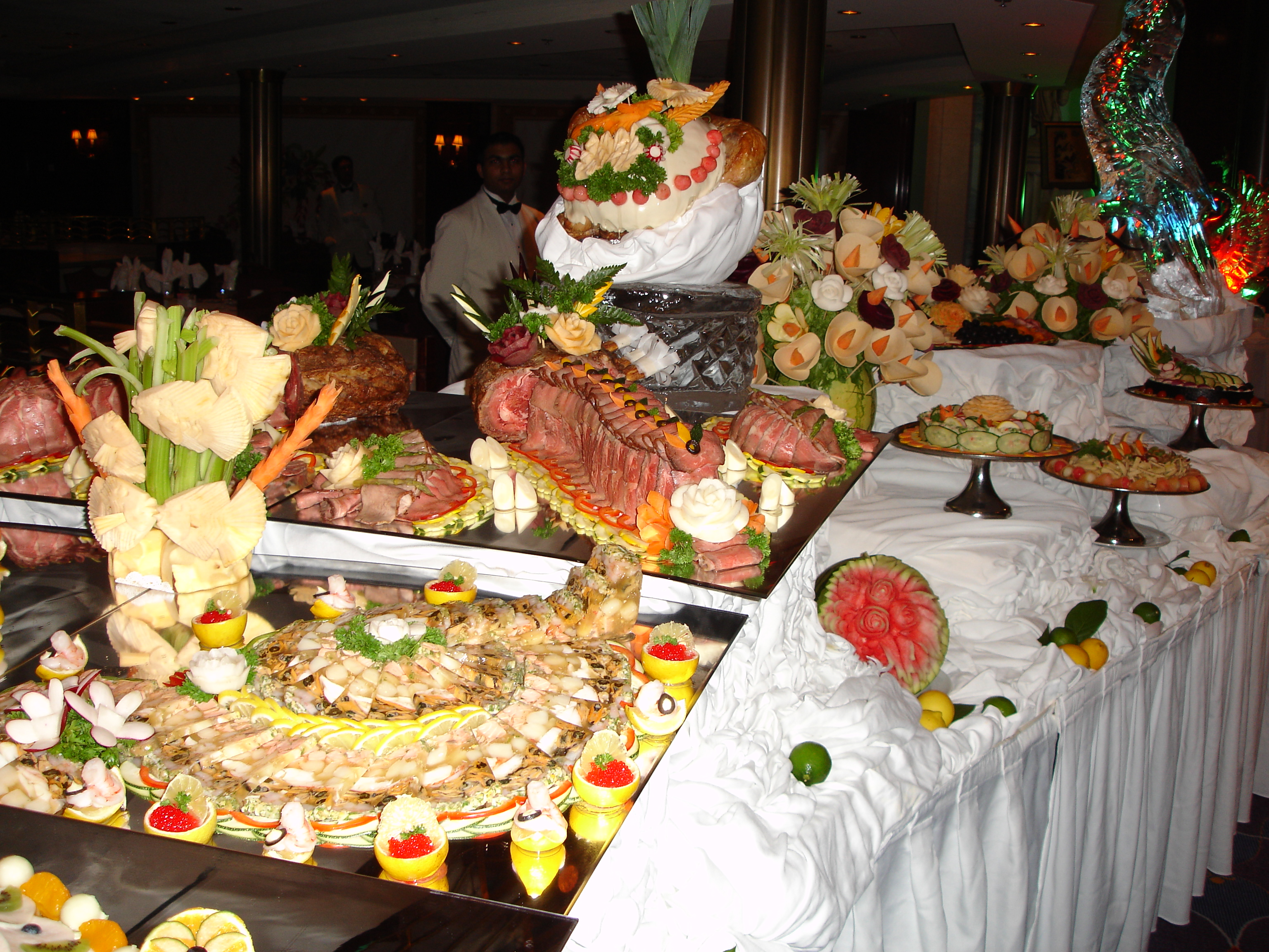 The midnight Grand Buffet and all of those talented chefs who prepared it! The Celebrity Cruises Motor Vessel Century viewed from the dock. 70,606 tonnage, 815 feet long, 105 foot beam width, 22 knot top speed, 14 decks, 1750 guests and 868 crew. See set comments for Welcome to the Dawn of a New Century .